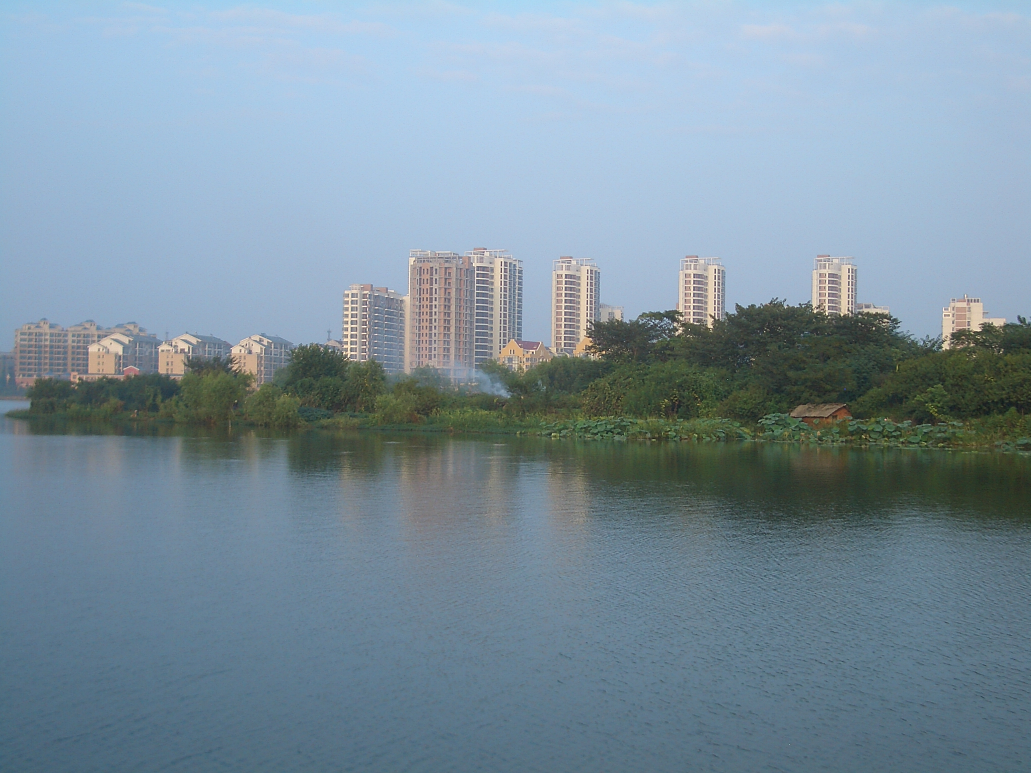 A lake, surrounded by parks, in central Ezhou.